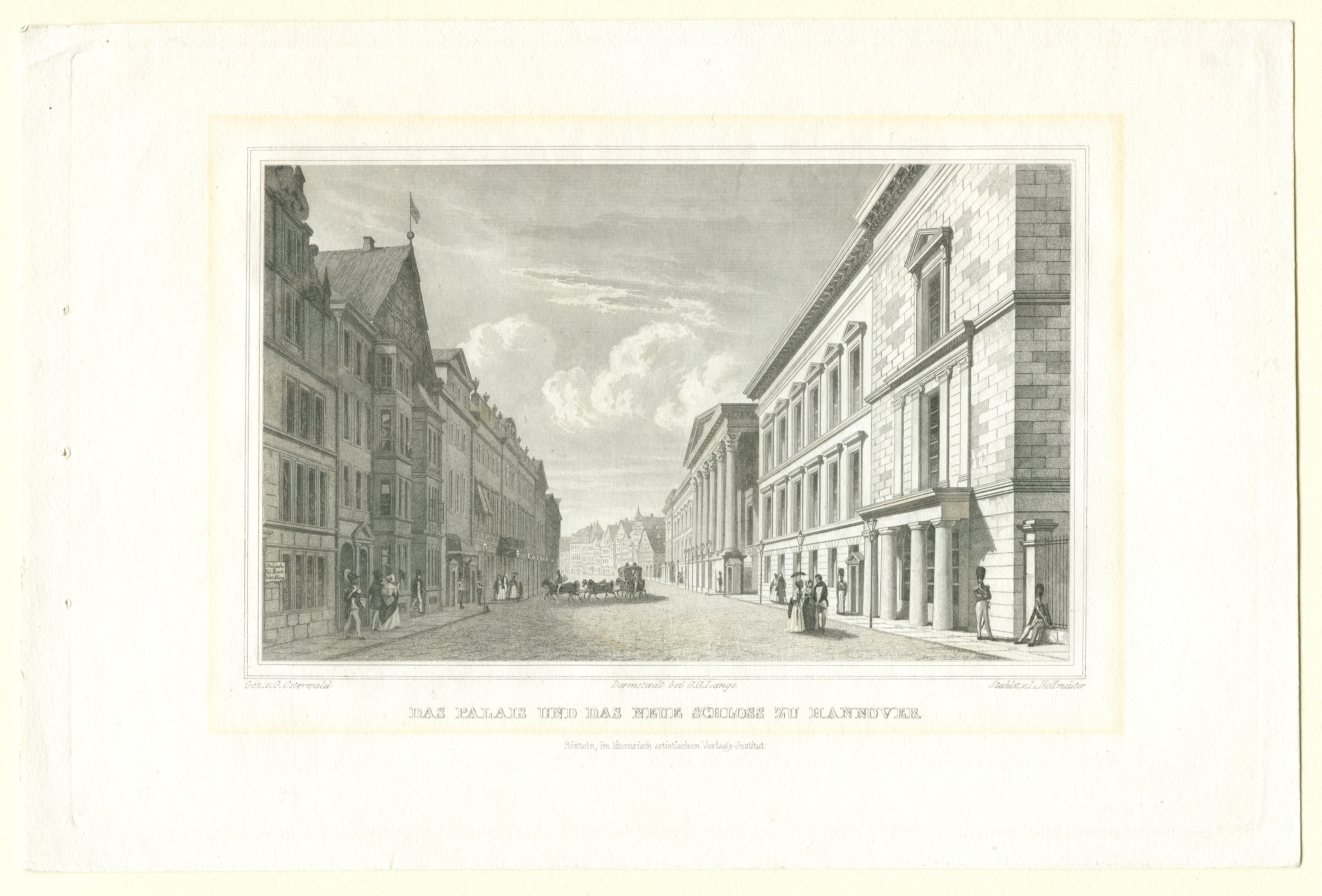 Steel engraving by L. Hoffmeister after a drawing by Georg Osterwald